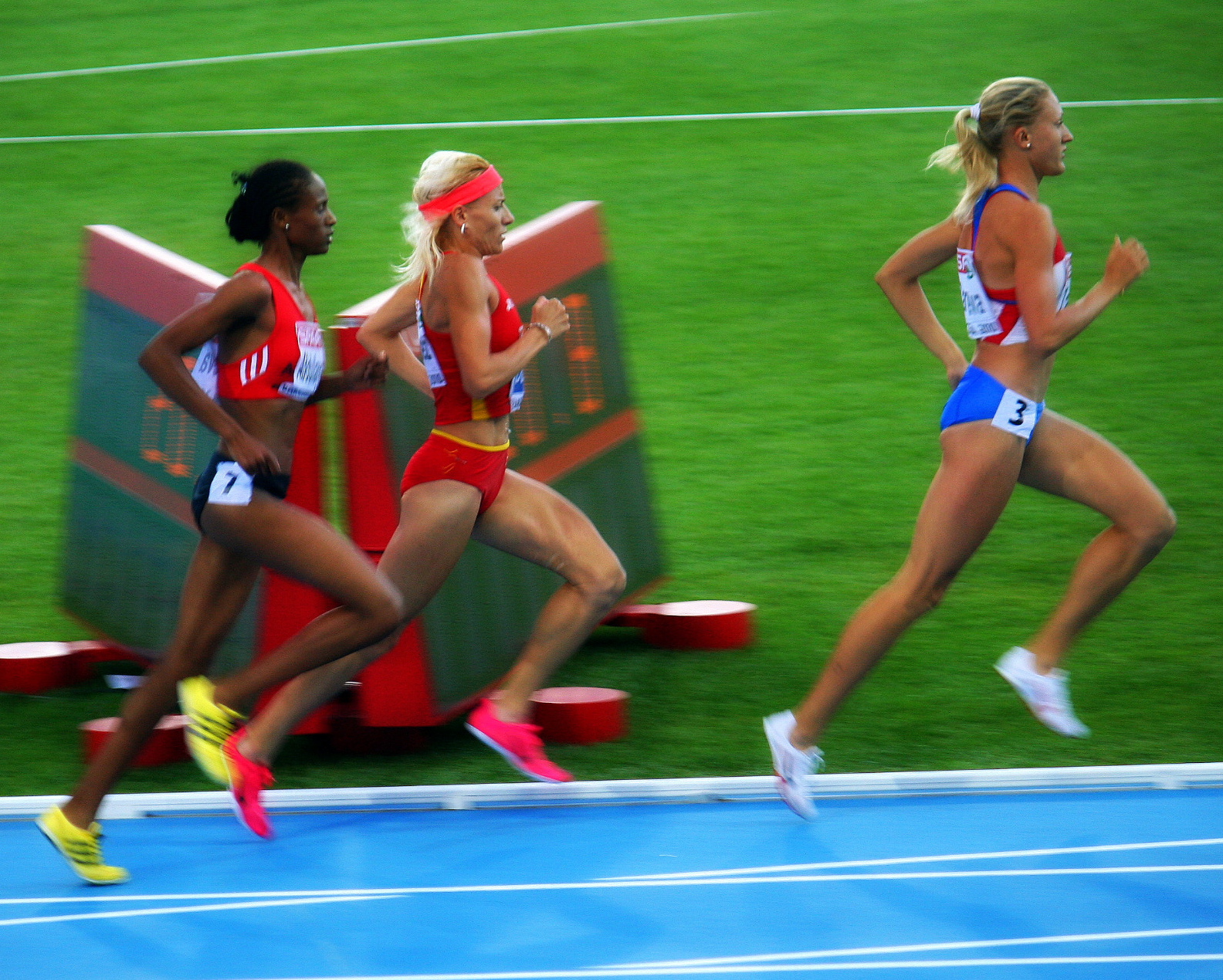 2010 European Athletics Championships – Women's 3000 metres steeplechase. Layes Abdullayeva, Marta Domínguez, Yuliya Zaripova